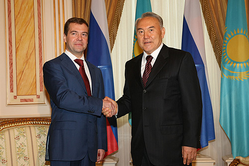 NUR-SULTAN. With Kazakhstan President Nursultan Nazarbayev.